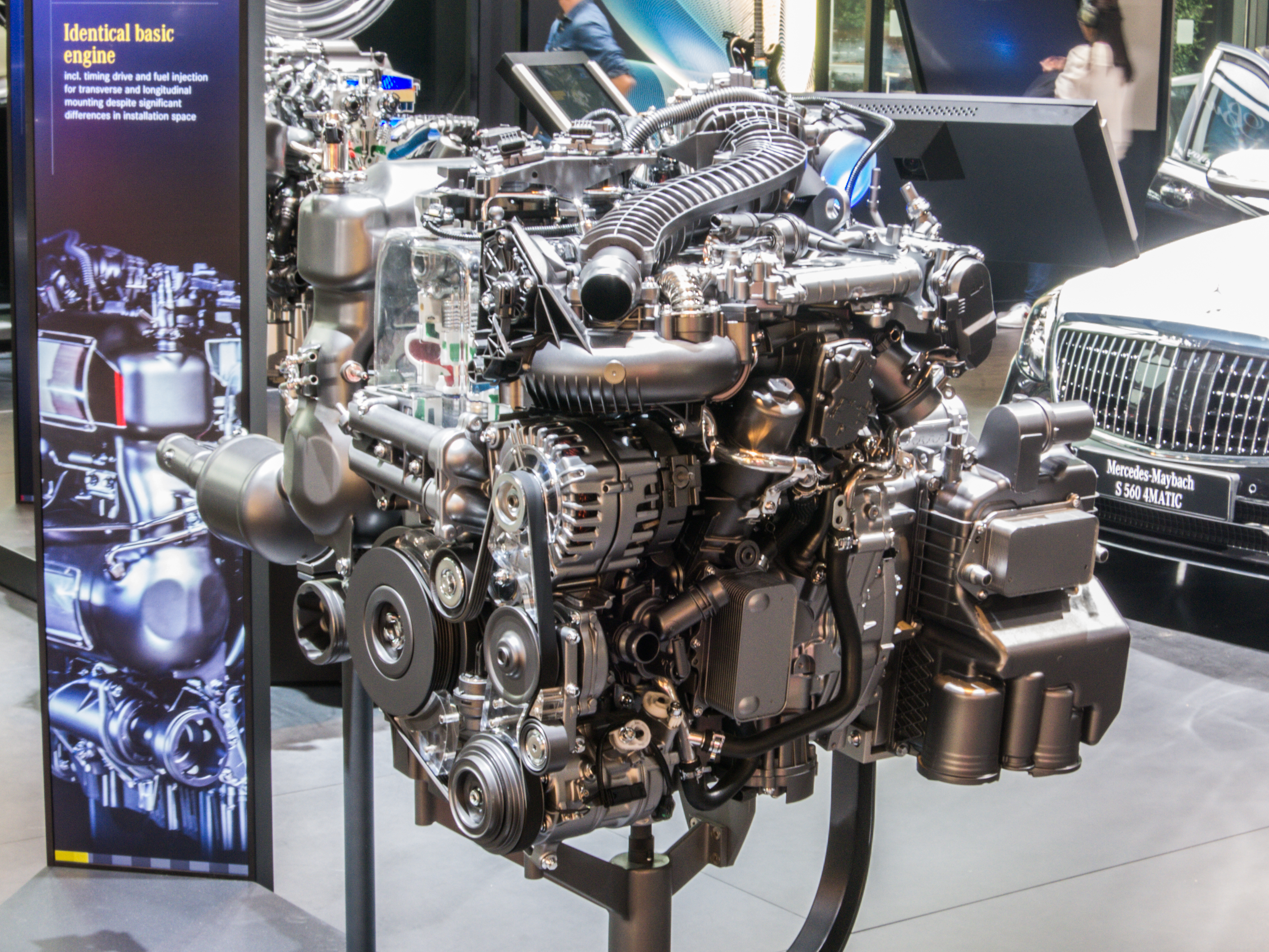 Mercedes-Benz OM 654